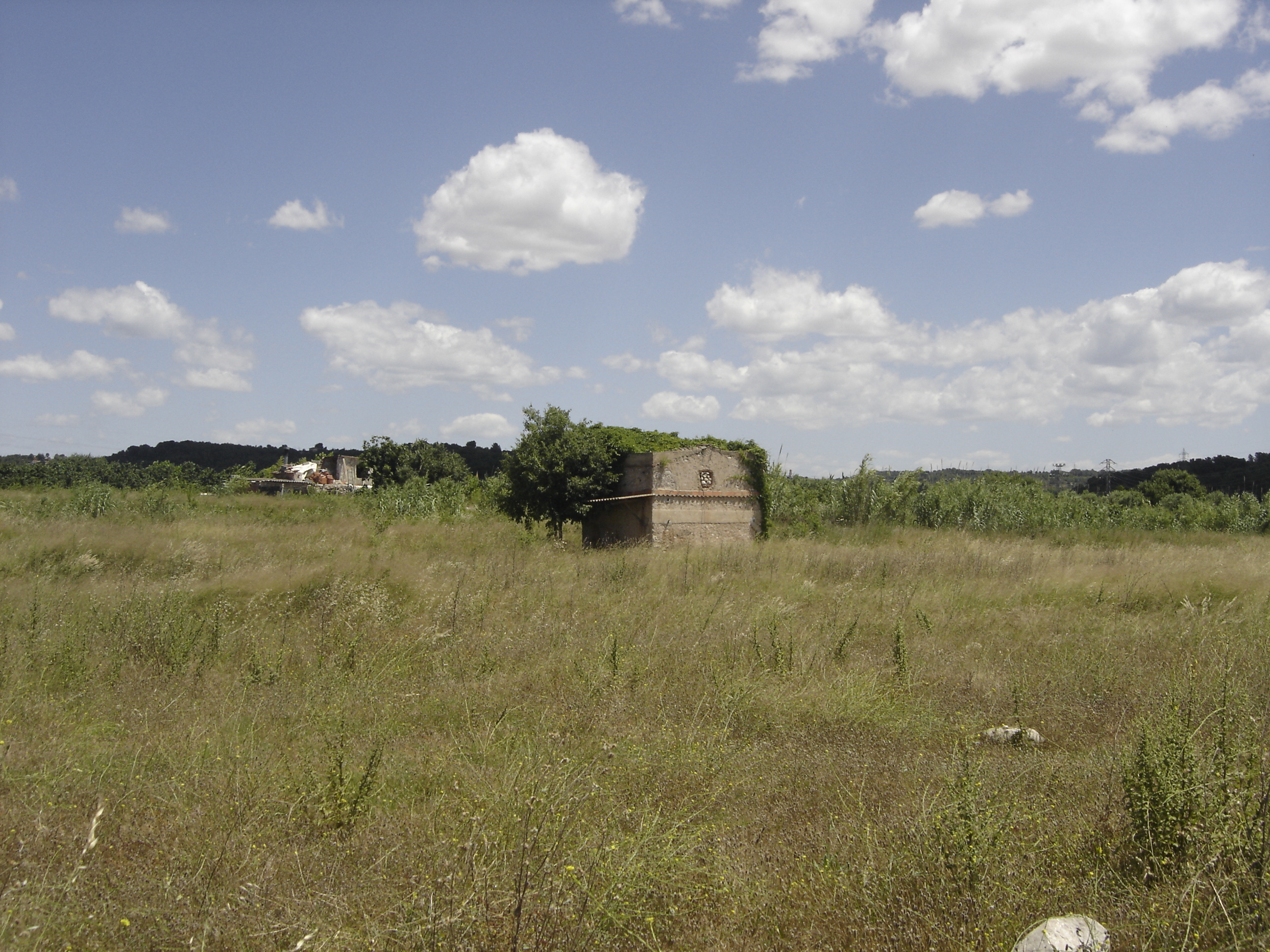 Mas d'Espardenya at El Rourell.